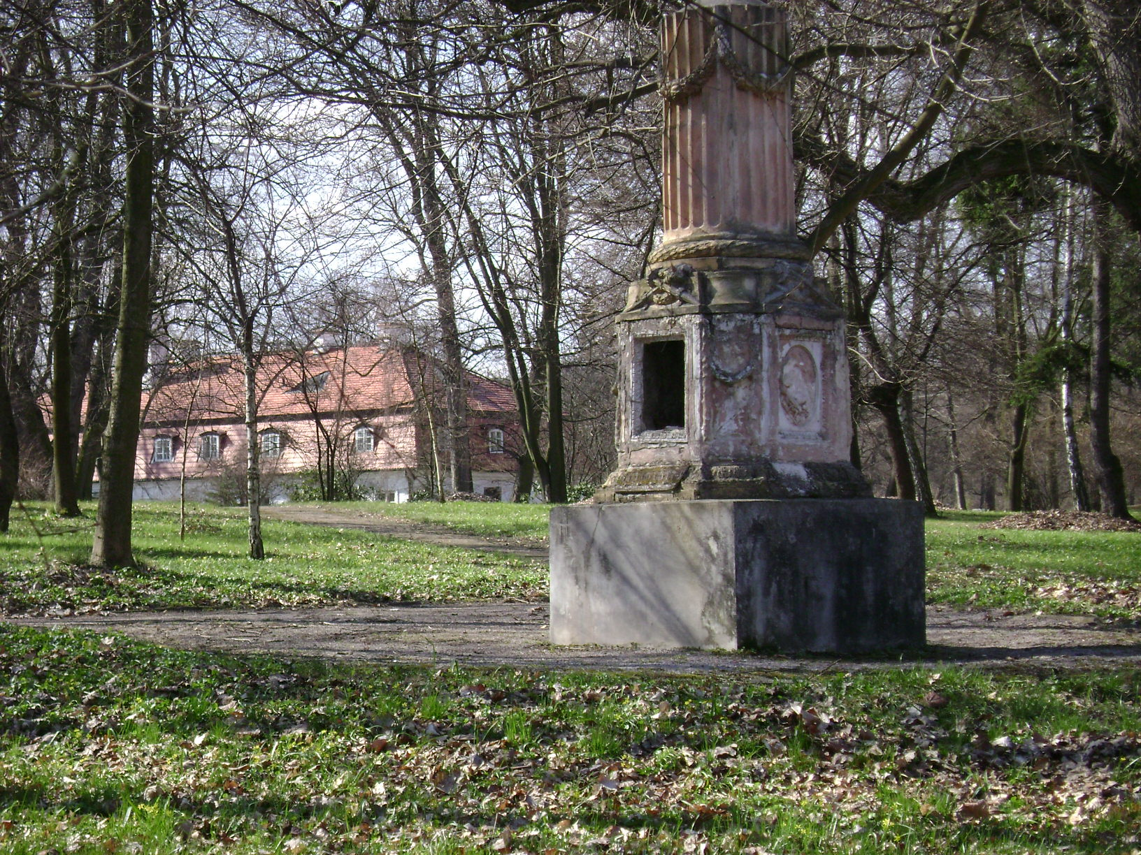 Poland. Gmina Konstancin-Jeziorna. Obory Village